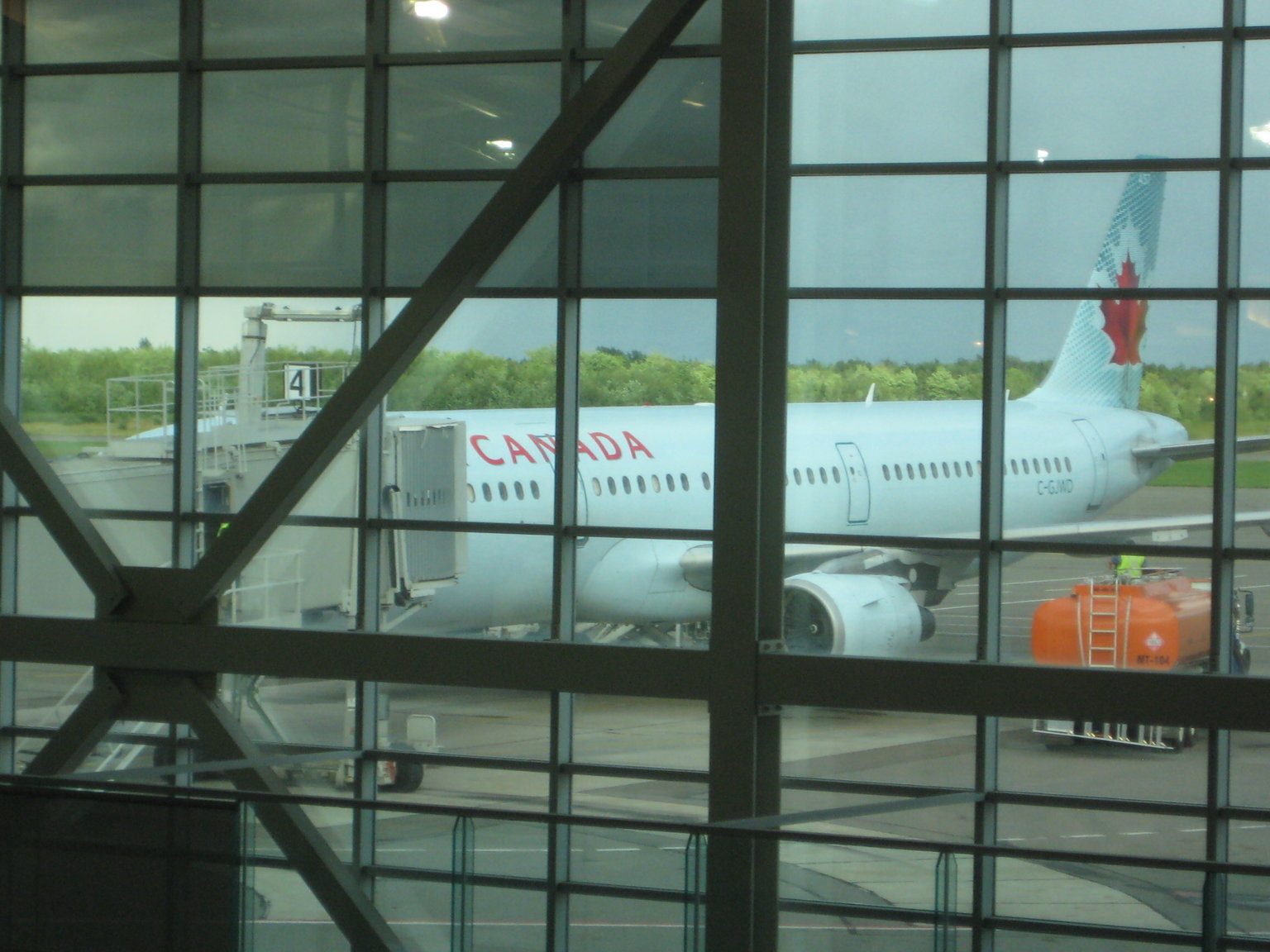 An Air Canada A321 arriving from Toronto